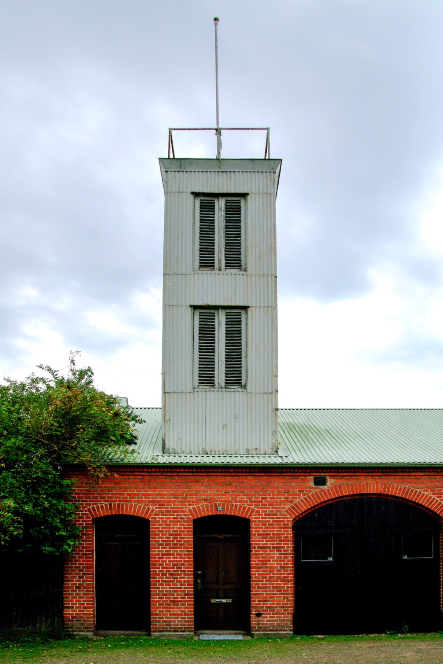 The Fire Brigade Museum in Raa has old fire trucks, equipment and a huge collection of pictures from Helsingborg Fire Brigade. The museum moved 2016 and the building is now private property